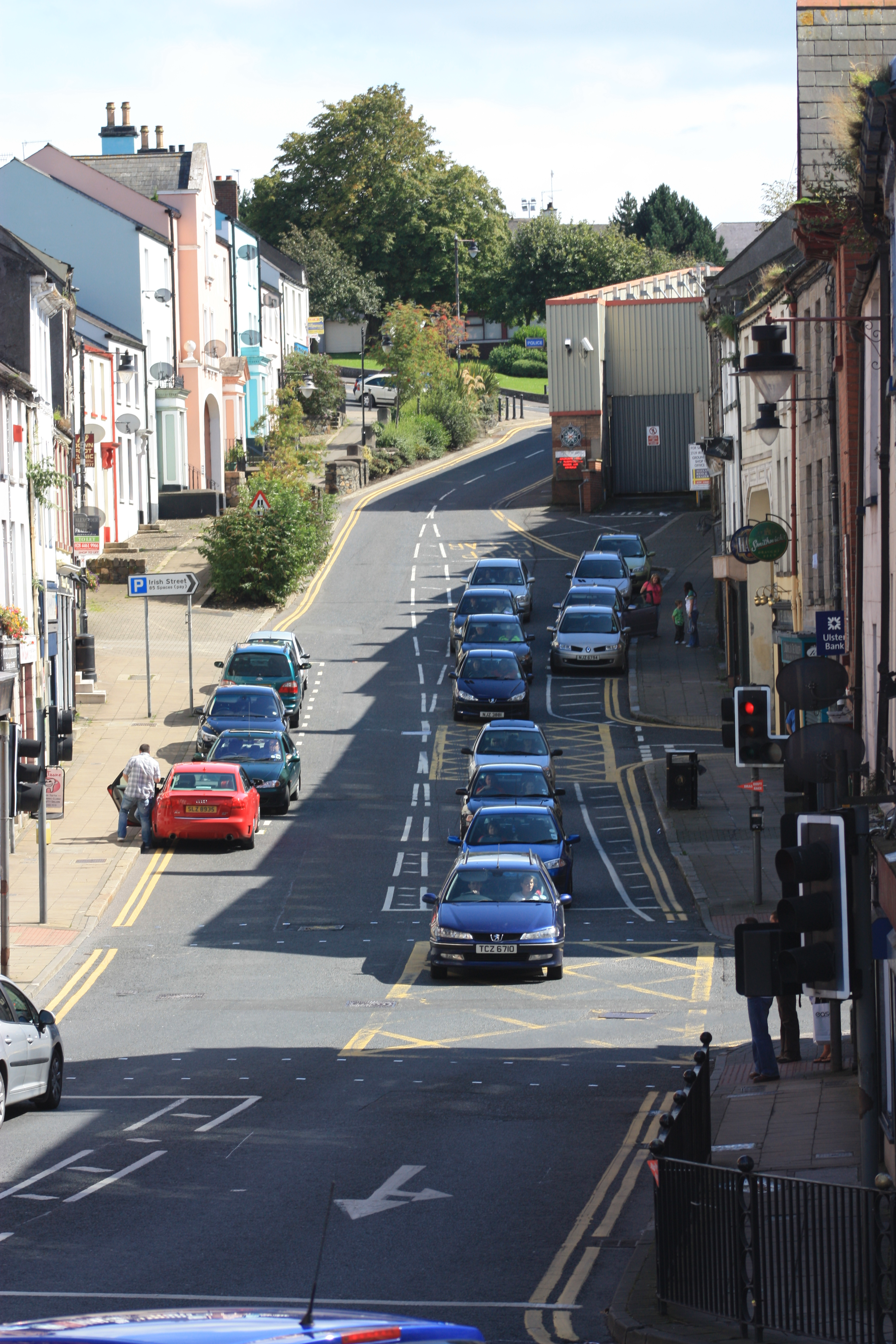 Irish Street, Downpatrick, County Down, Northern Ireland, August 2009